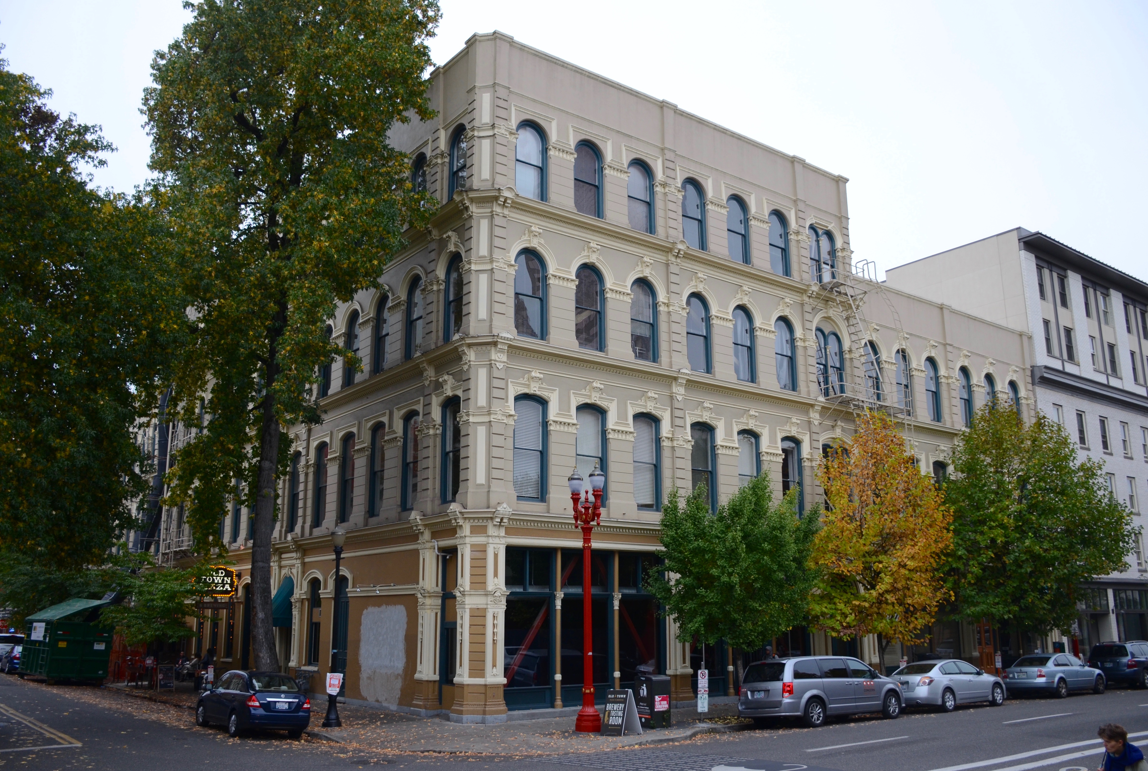 The historic Merchant Hotel building, also known as the Merchants' Hotel, in Portland, Oregon. It was last used as a hotel in 1967 (just part of the building at the end), and in 1968–69 was renovated and remodeled for use mainly as an office building.